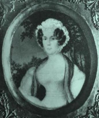 Francesca Romana von Strassoldo-Gräfenberg, princess Radetzky